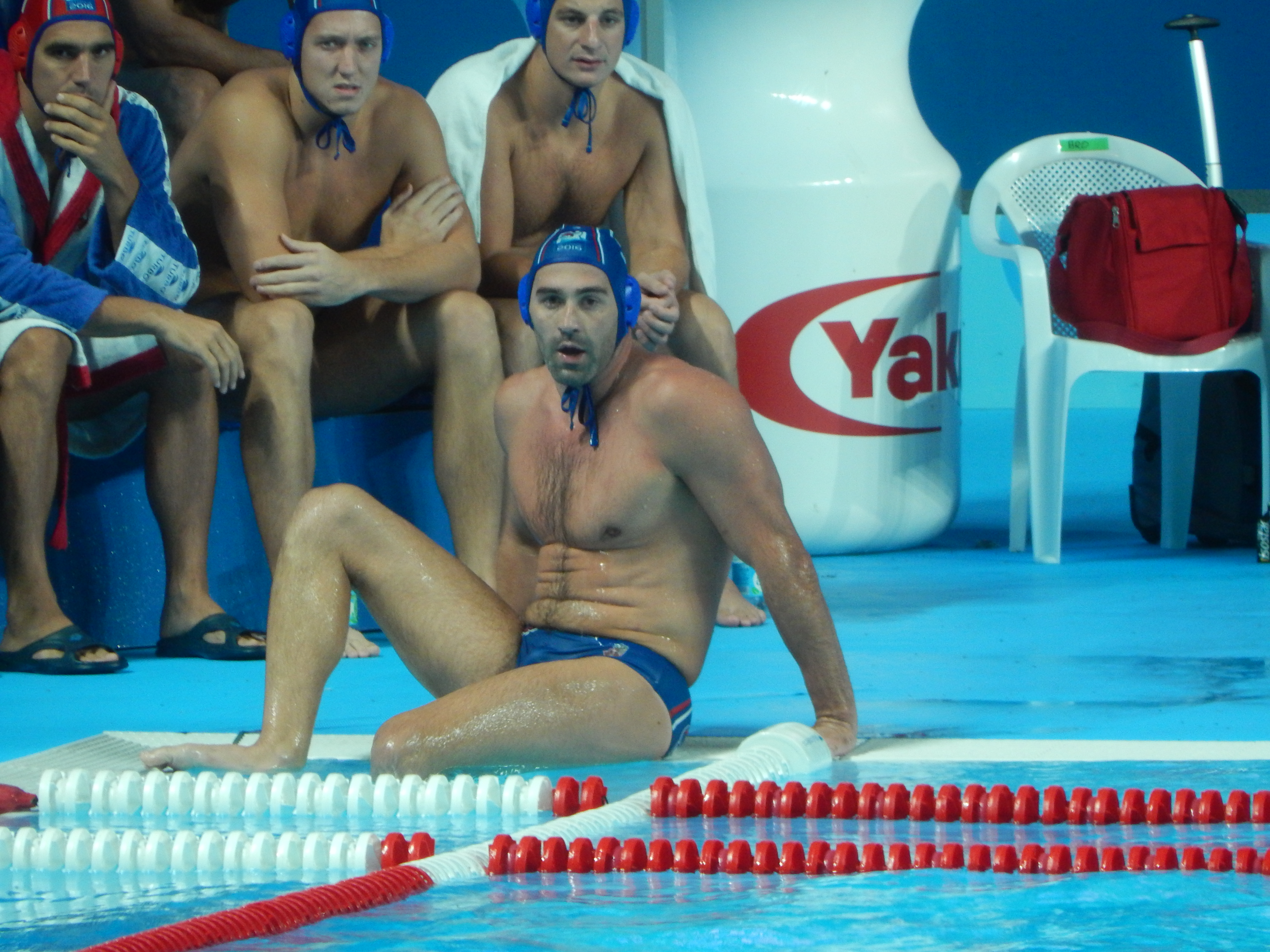 The gold medal match between Team Serbia and Team Croatia and the victory ceremony. All photos have been taken from the photographers sector. I was simply usual visitor but my ticket was to non-existent seats, therefore I was moved to that sector. All good photos I upload to WikiCommons for free use.